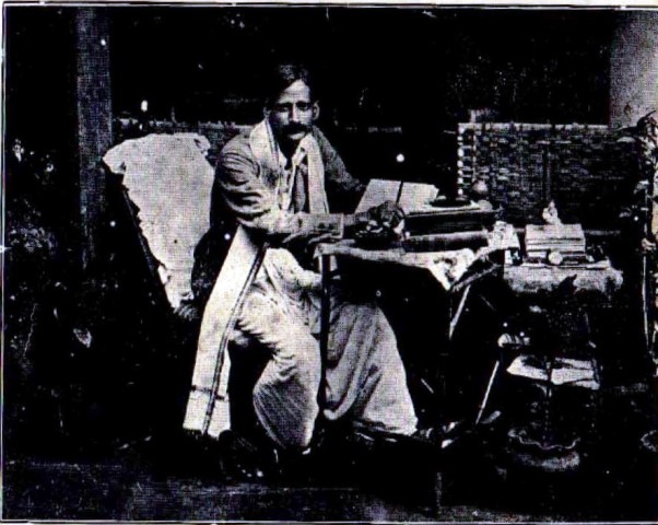 This is the photograph of Kavikondala Venkata Rao, popularly known as Andhra Wordsworth.